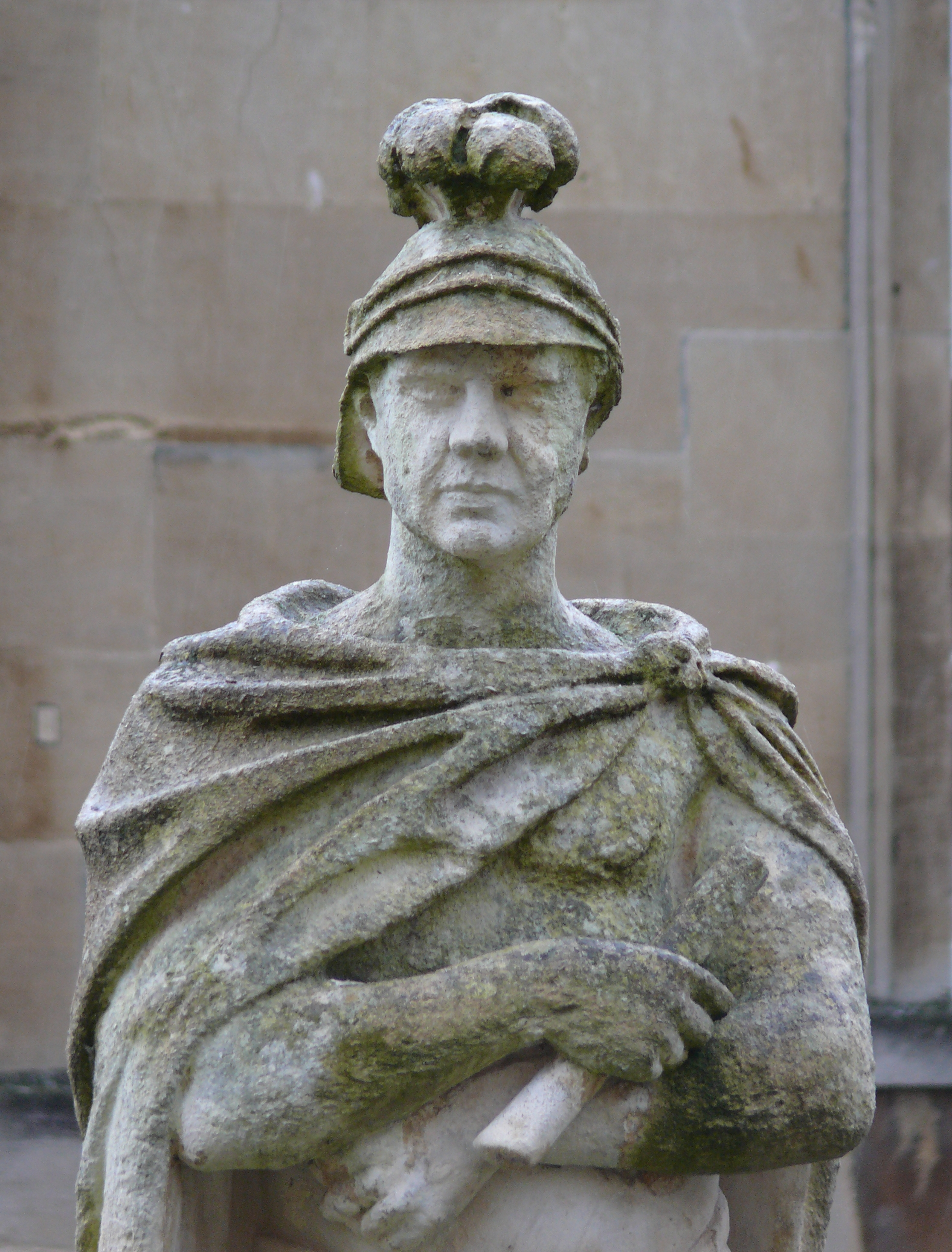 Statue of Gaius Suetonius Paulinus on the terrace of the Roman Baths (Bath). The Terrace is lined with statues of Roman Governors of Britain, Roman Emperors and military leaders. The statues date to 1894.